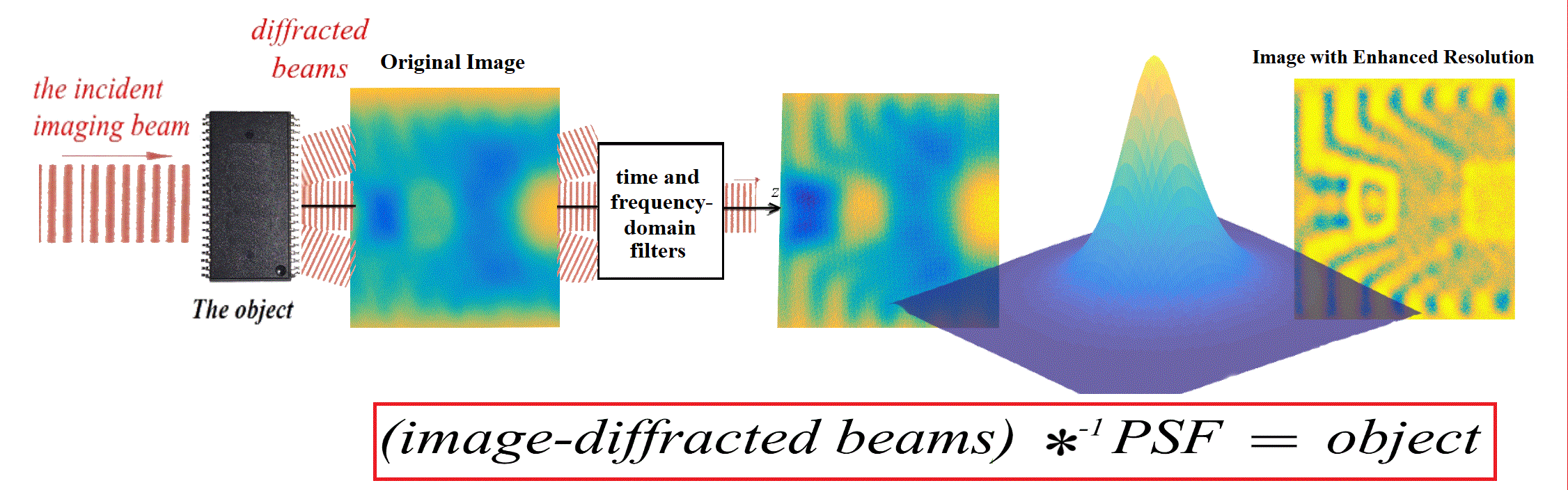 Resolution Enhancement